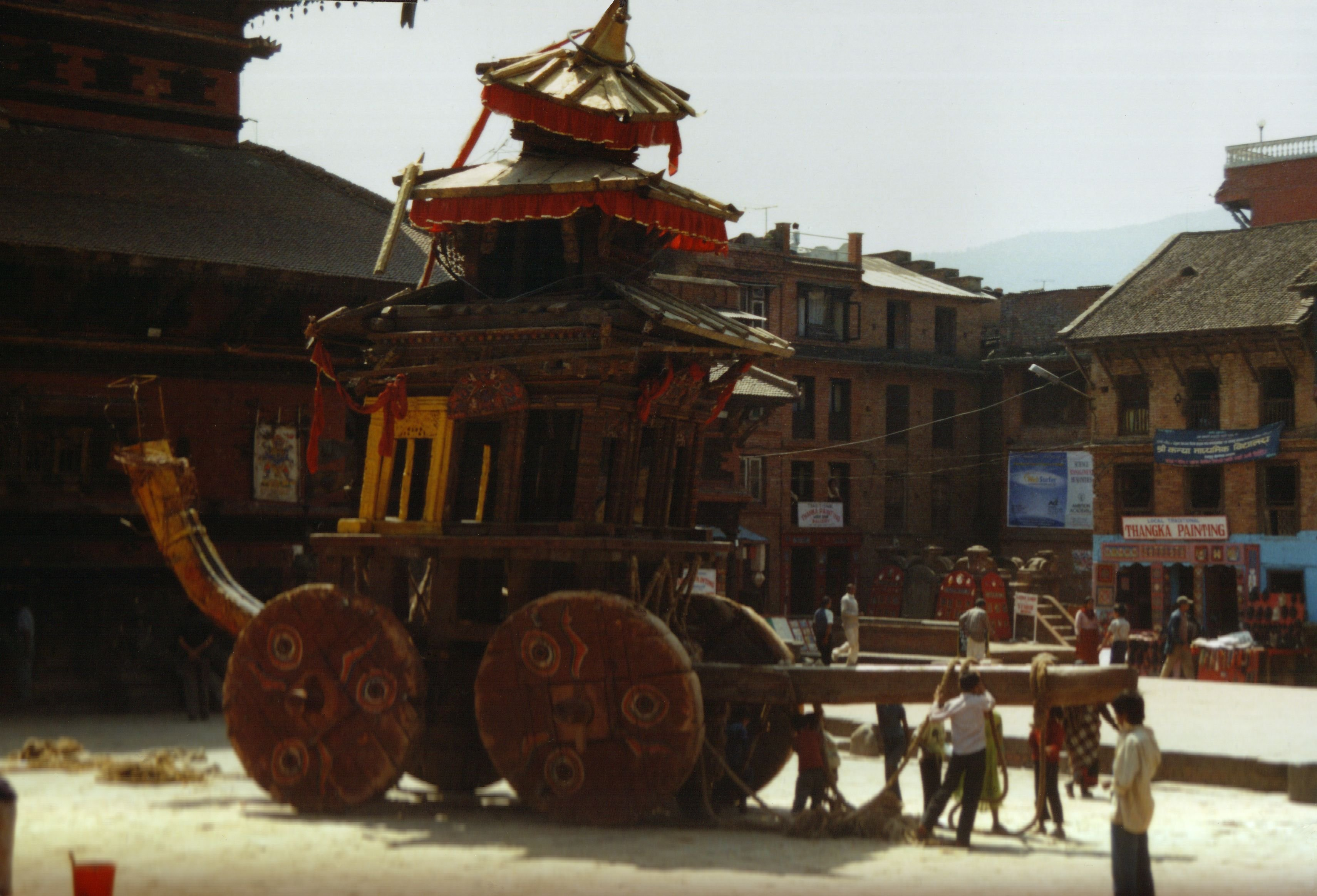 ceremony wagon in Bhaktapur